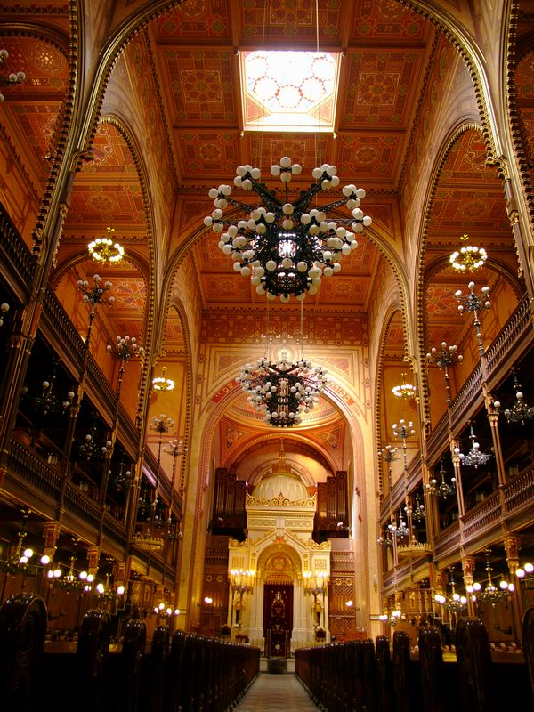 Dohány Street Synagogue (hungarian Dohány utcai zsinagóga) or Great Synagogue (hungarian Nagy zsinagóga), Budapest, Hungary